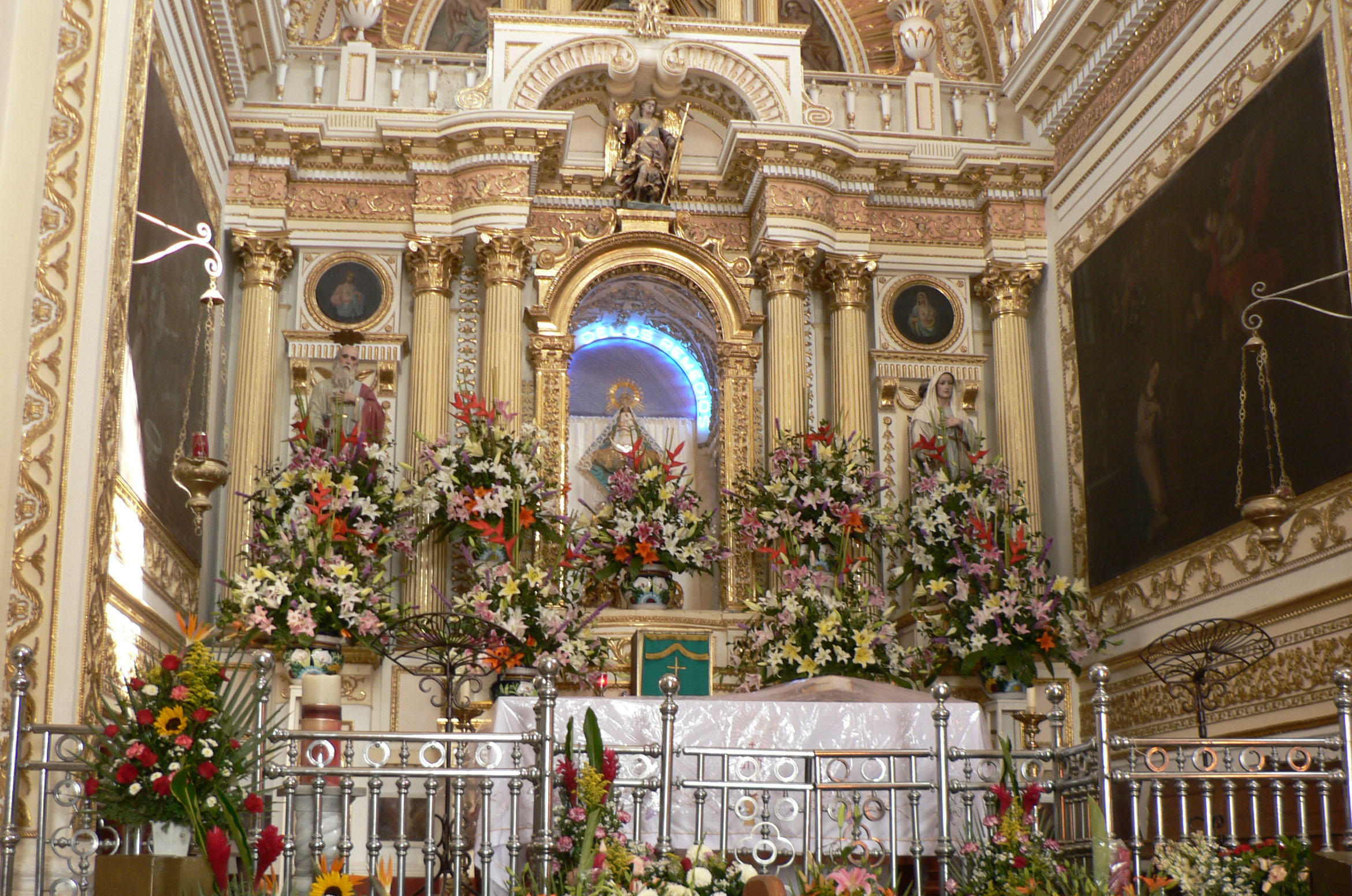 The interior of the catholic church Santuario de Nuestra Señora de Los Remedios in Cholula, México